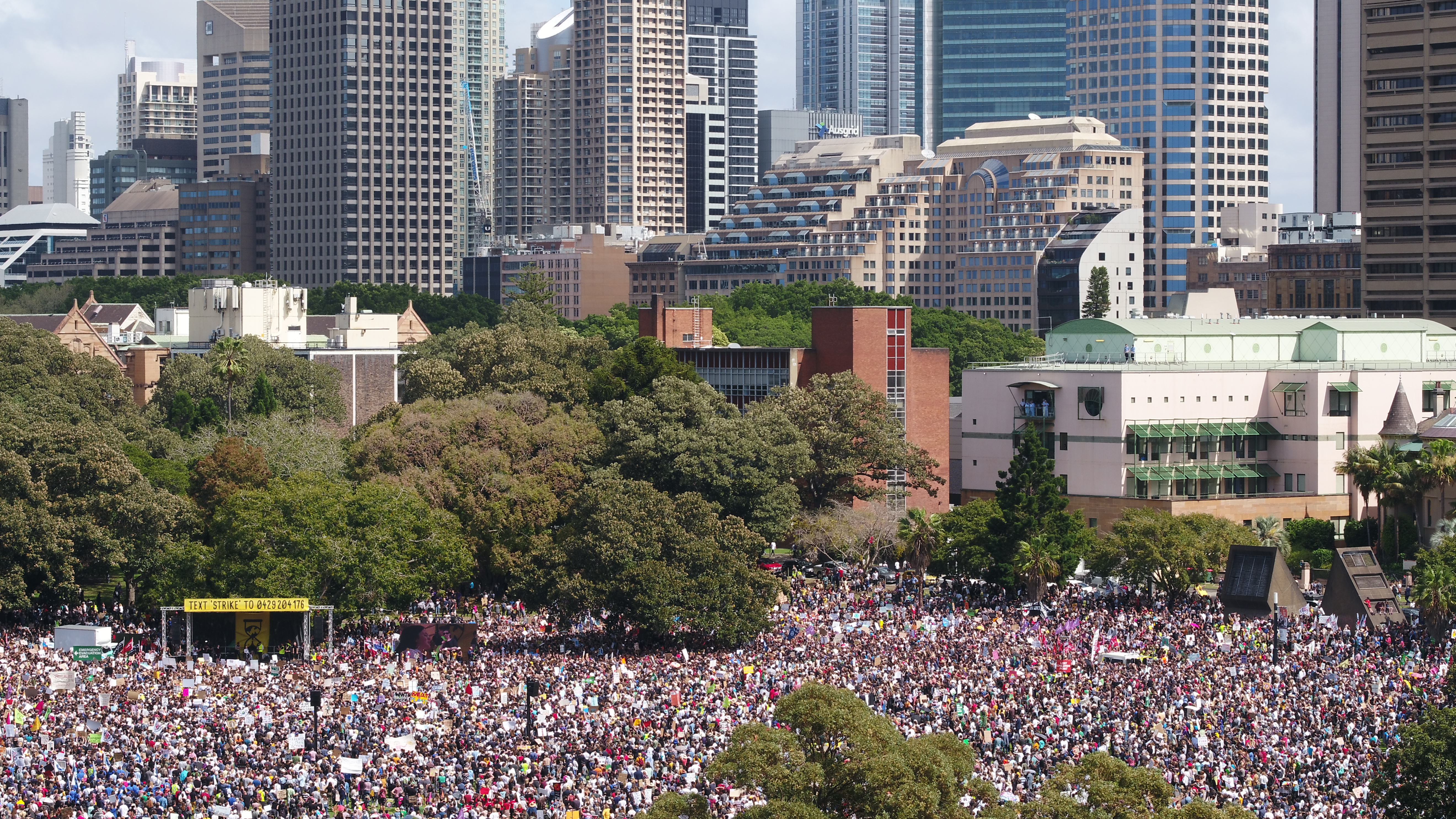 Photo credit: Crisp Aerial Imagery